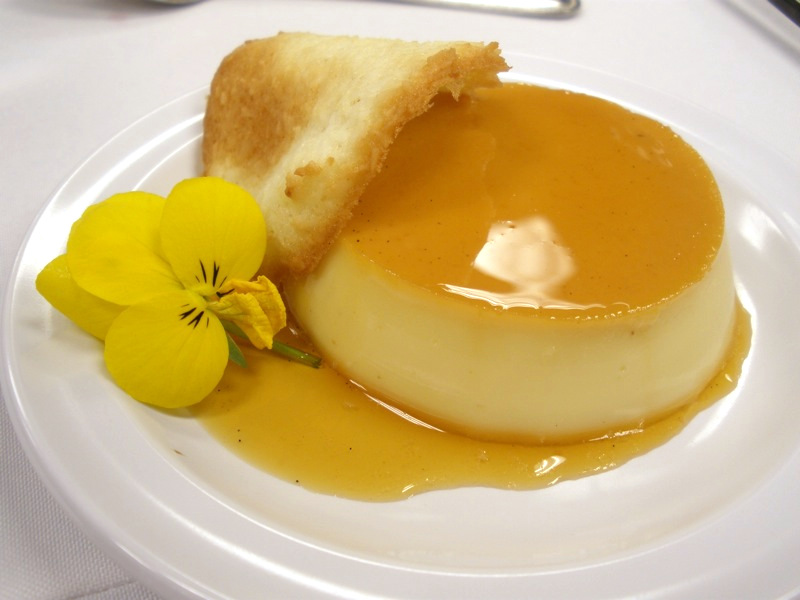 Coconut Creme Caramel with Coconut Tuile at Google's Oasis Cafe